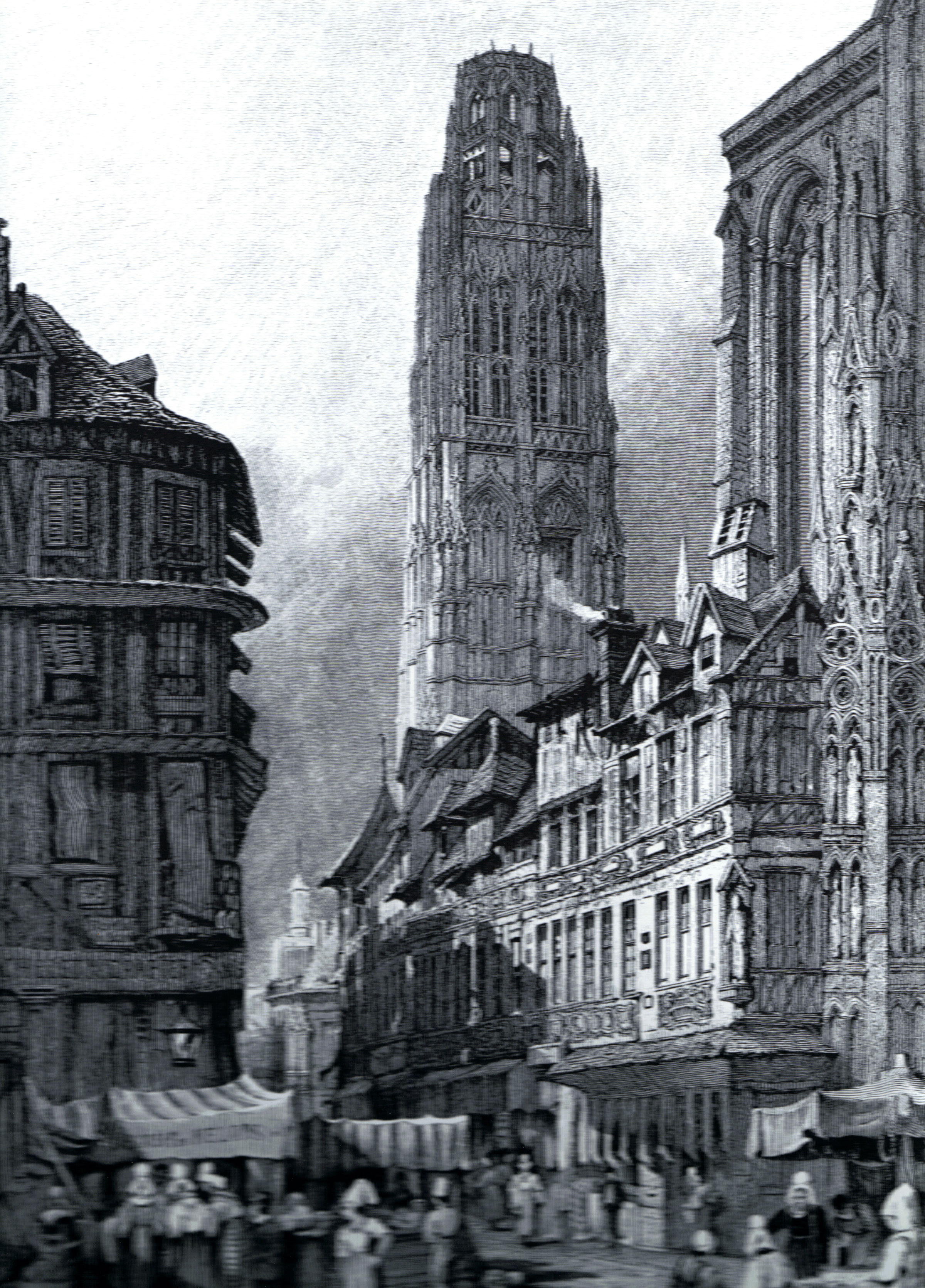 Rouen cathedral around 1830. Drawing by Samuel Prout, engraving by W. Wallis.